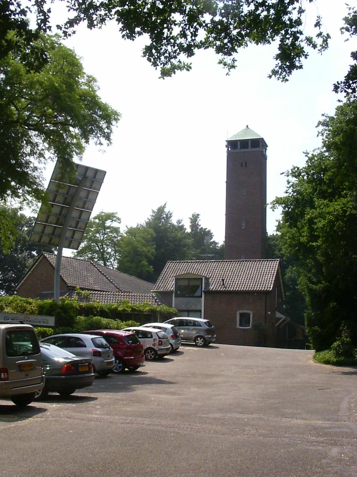 Oosterbeek, Westerbouwing